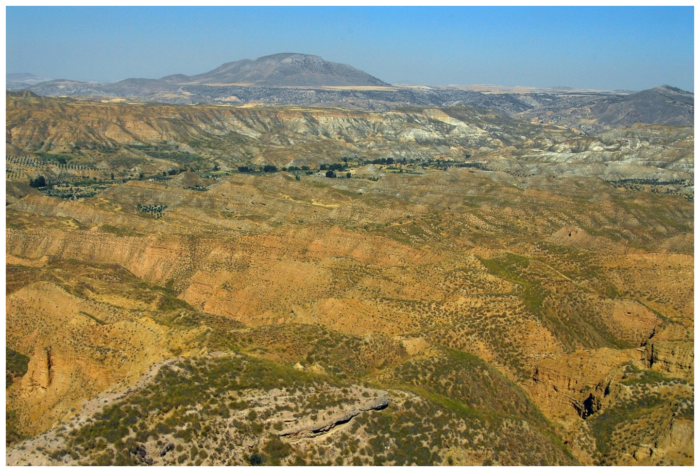 View of the Guadix Basin, to the West (Mencal Hill). Brown rocks belongs to the Internal Transverse System (sterile in mammal fossils); grey and white rocks belongs to the Axial System (units V and VI), fluvial and lacustrine rocks with Pliocene-Pleistocene mammals record.